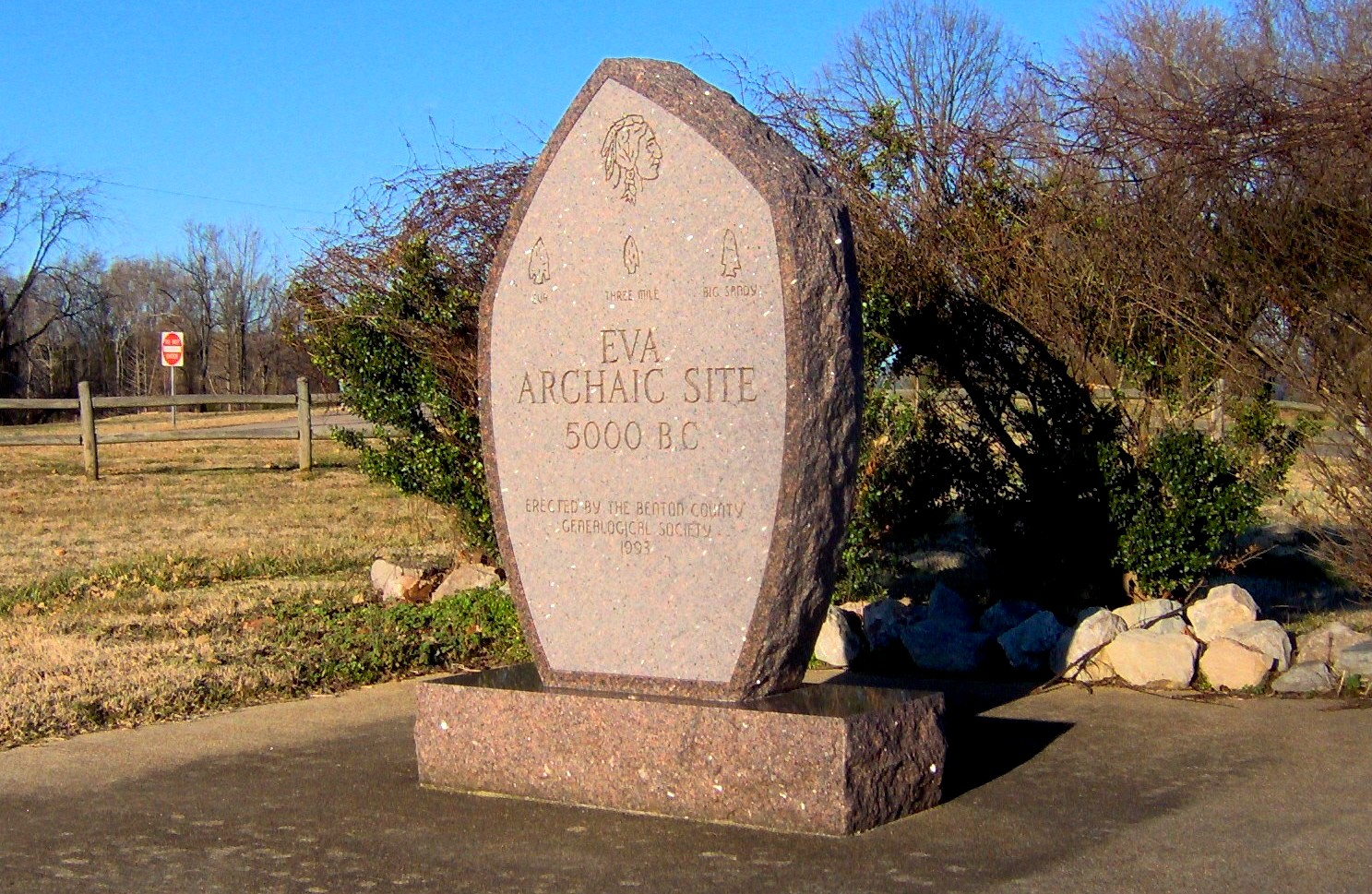 Monument at Eva Beach in Benton County, Tennessee, in the southeastern United States. The monument recalls the Eva site, an Archaic site that saw substantial Native American occupation between 6000 and 1000 B.C. The Eva site, which was submerged by the creation of Kentucky Lake in 1944, was located roughly 1.5 miles north of this marker. The marker shows projectile points indicative of the site's three major occupation phases.